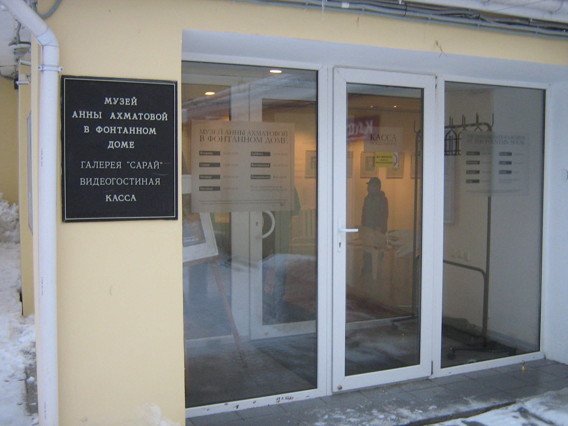 Saint Petersburg (Russia), Liteyny Avenue